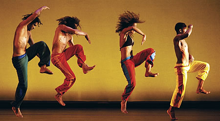 DanceBrazil performs Ritmos, choreographed by NEA National Heritage Fellow Jelon Vieira.